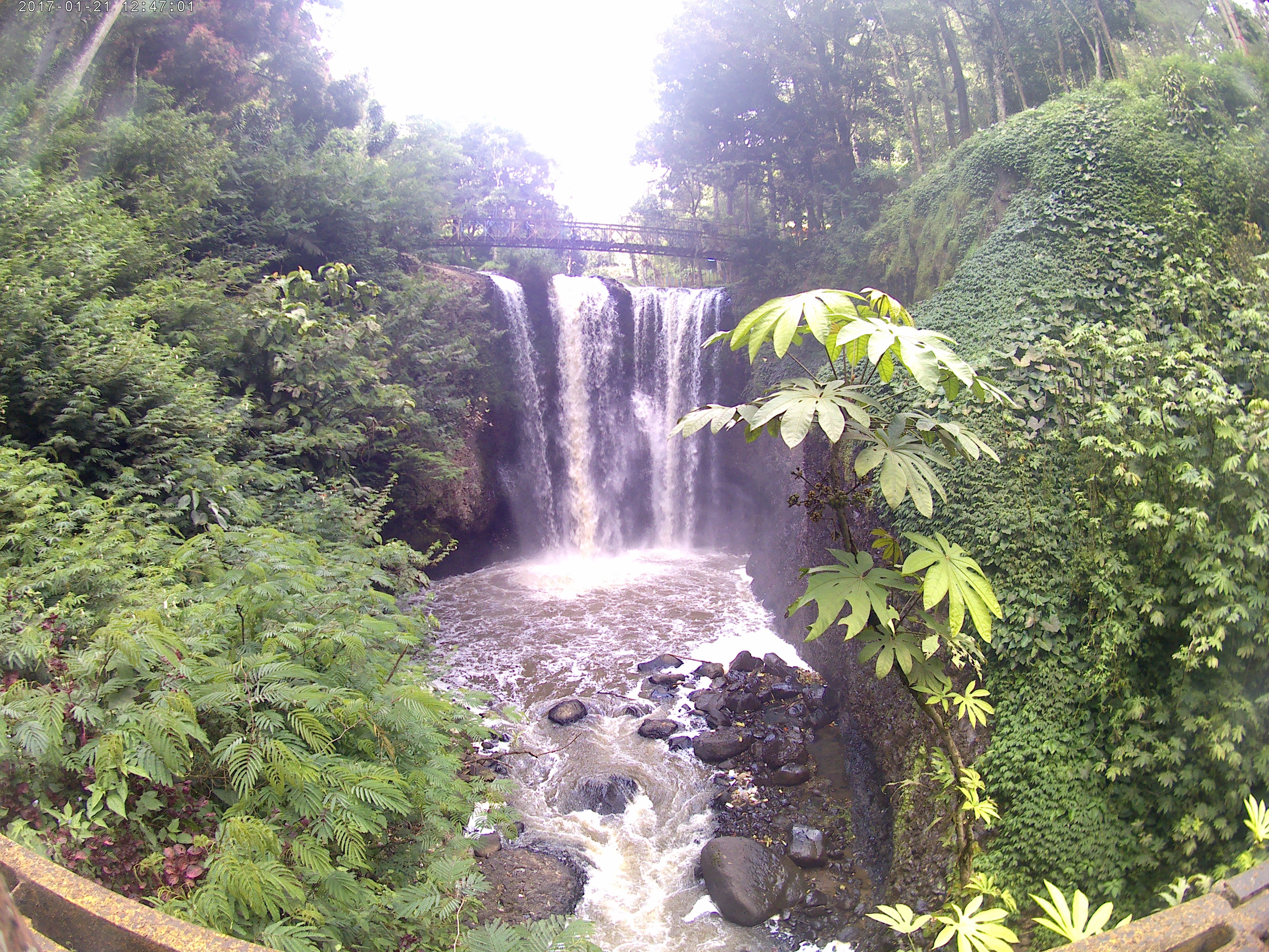 Maribaya Waterfall which is located in Djuanda Forest Park area, Bandung, West Java.